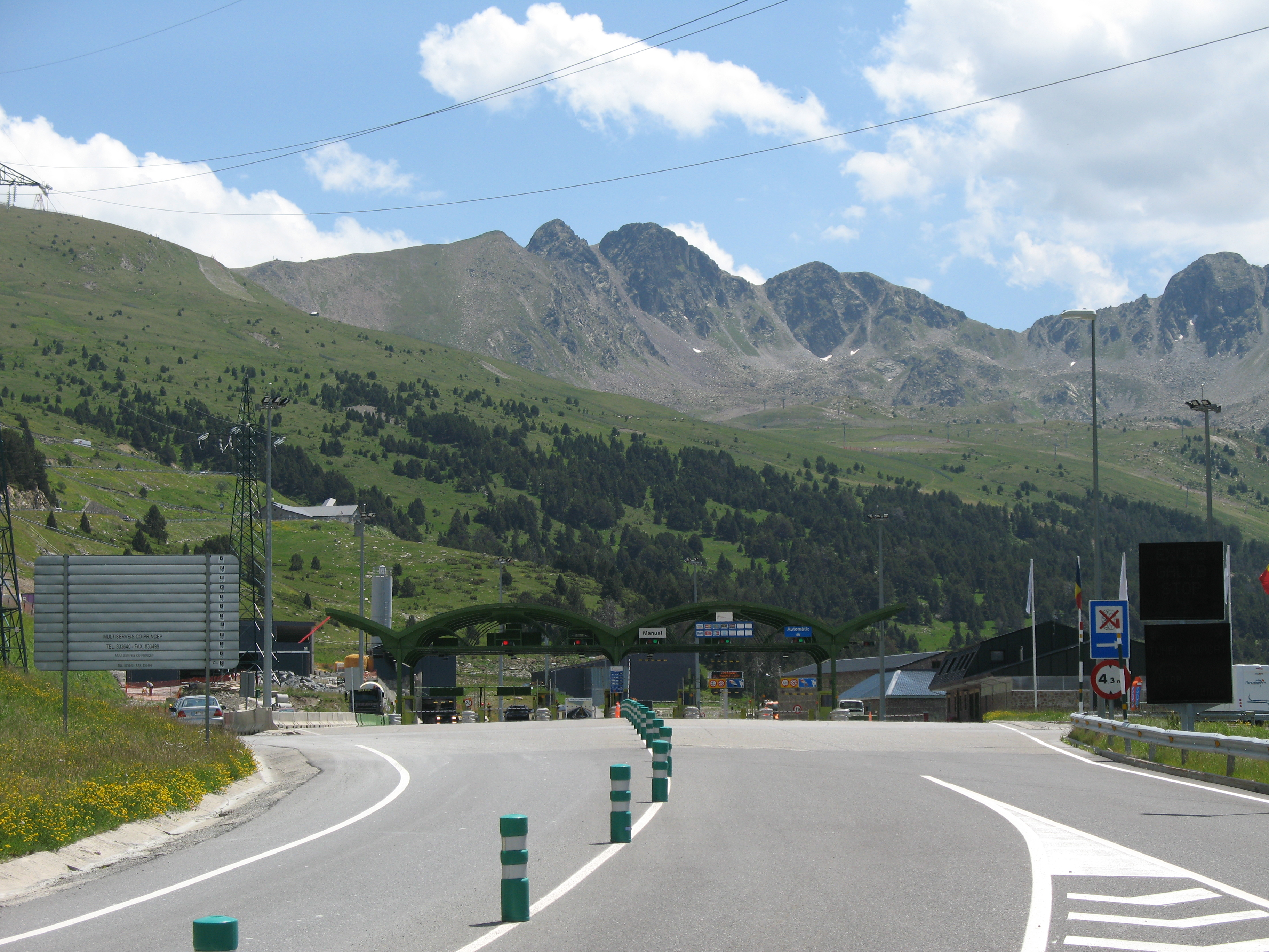 Toll at the entry of Envalira Tunnel in Andorra.